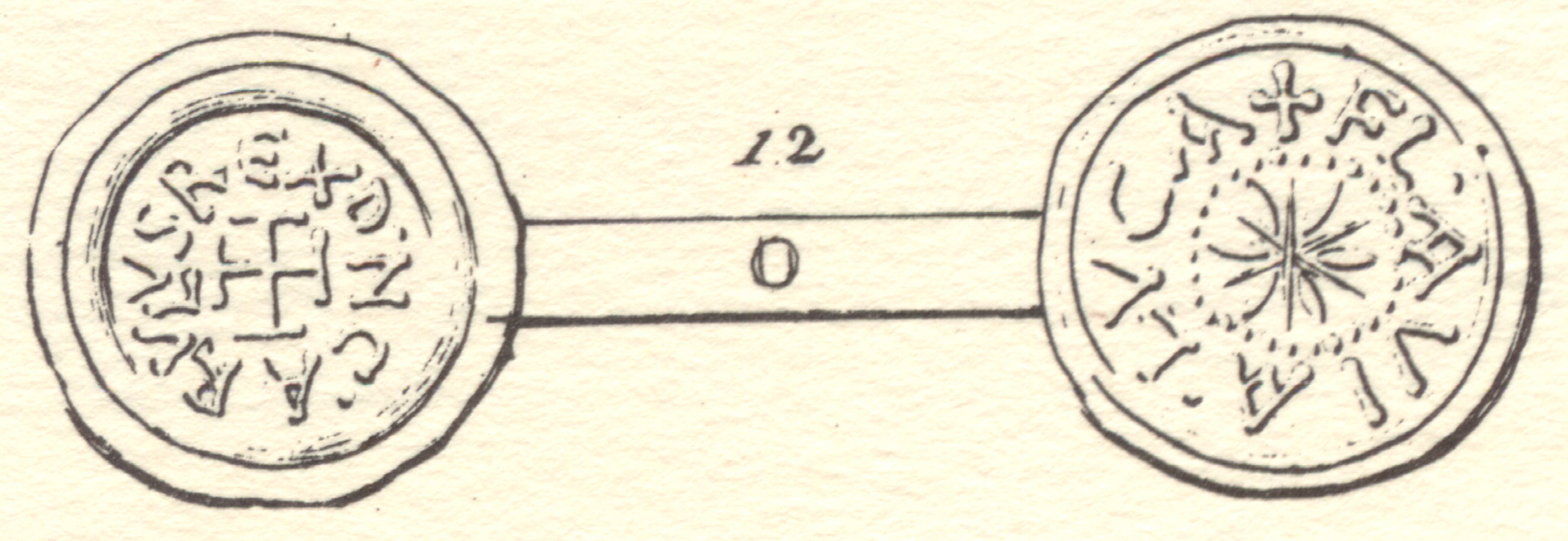 Image 12 from plate 3 from :Introduzione alla storia della zecca e delle monete lucchesi, by Domenico Massagli, printed in Lucca in 1870 tremissis minted by Carolus Magnus in Luca (nowdays Lucca, 774 - 781 DN CARVLVS REX, cross potent + FLAVIA LVCA, six (or flower) within circle. AV, circa 0,950 - 1,050 g